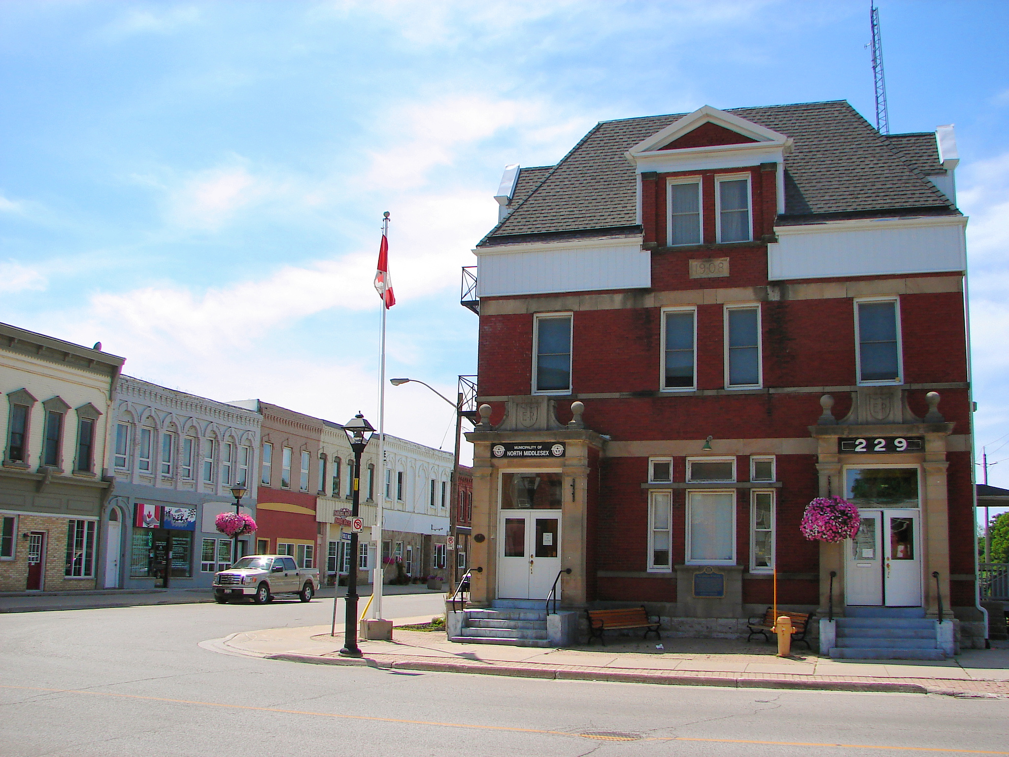 Municipal office of North Middlesex in Parkhill, Ontario, Canada